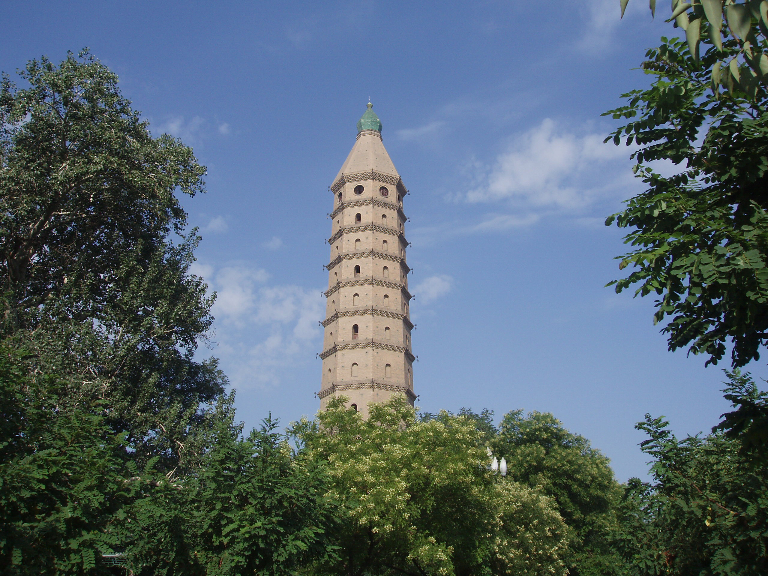 West Pagoda, an ancient pagoda in Yinchuan, China